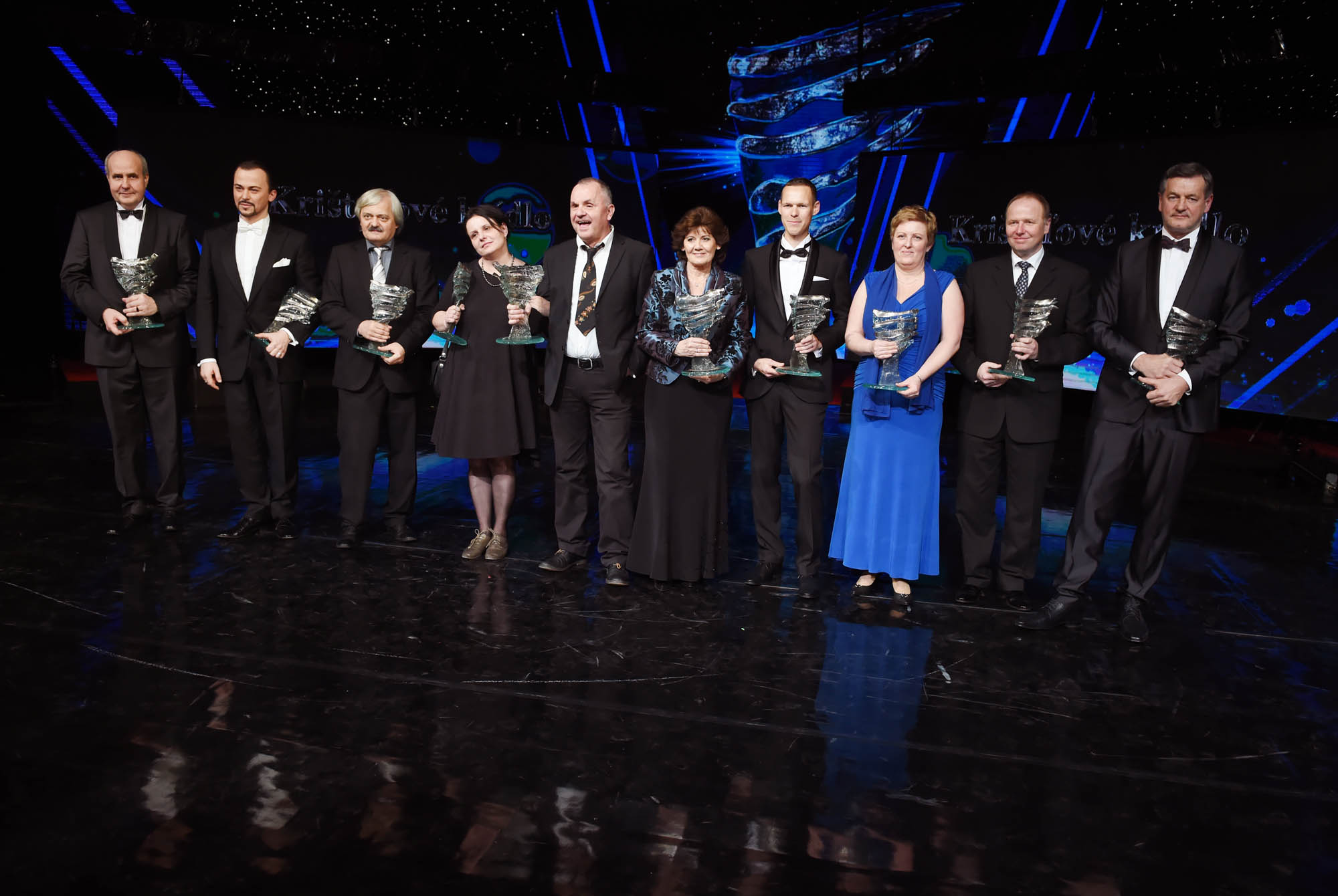 Laureates of Krištáľové krídlo award for the year 2015.